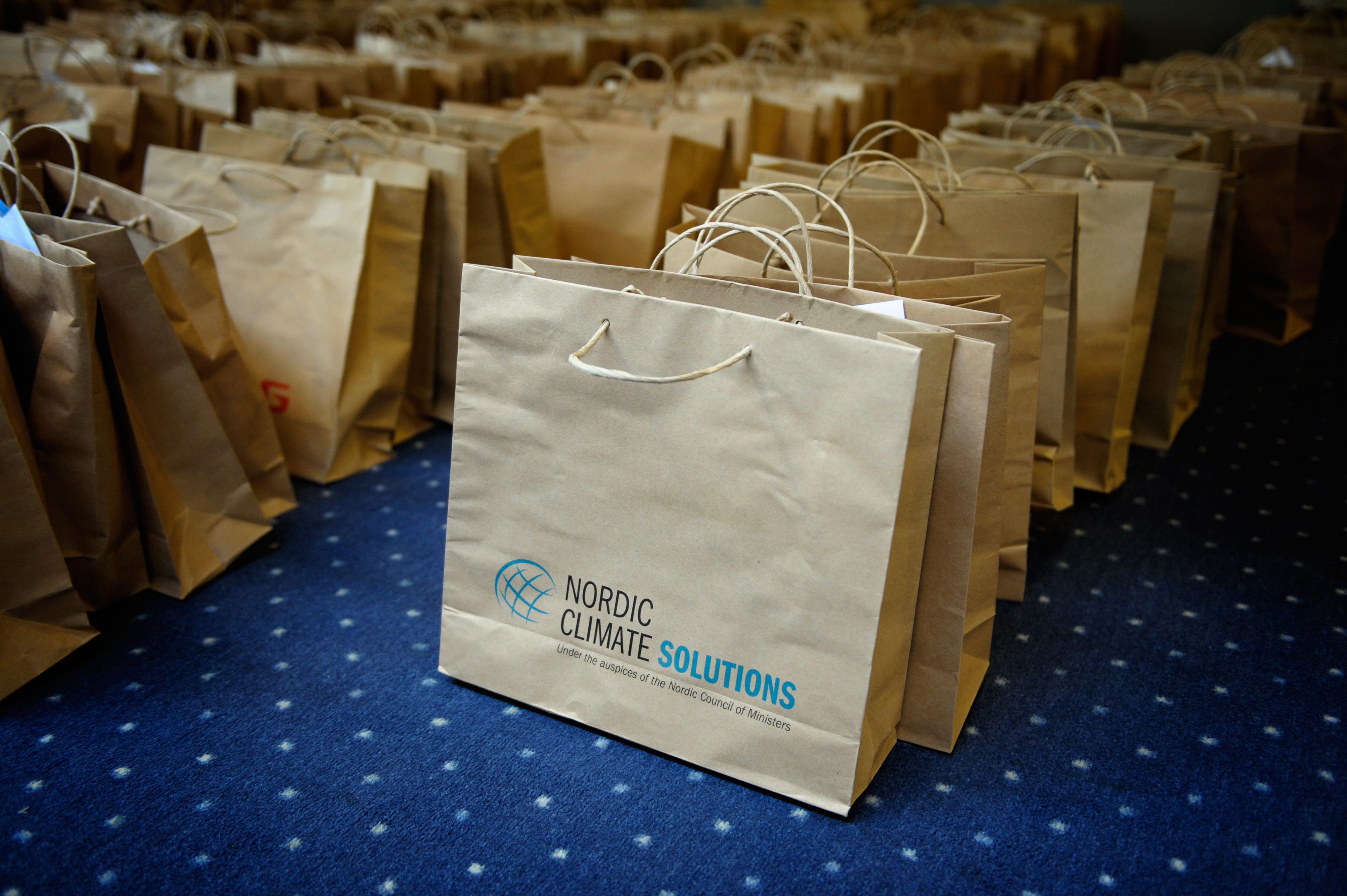 Nordic Climate Solutions 2009-09-09